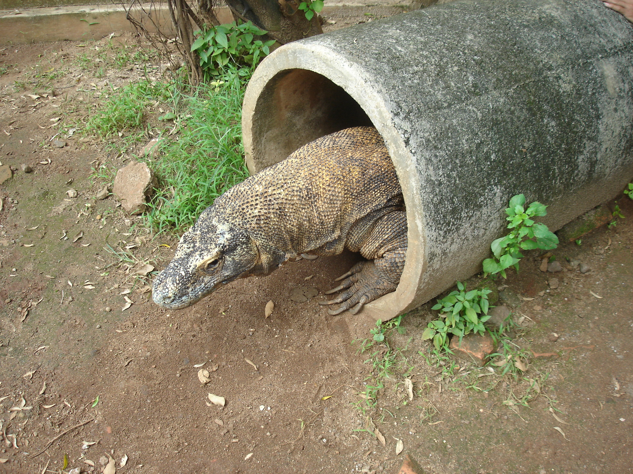 Komodo dragon (Varanus komodoensis), Komodo Park, Taman Mini Indonesia Indah, Jakarta